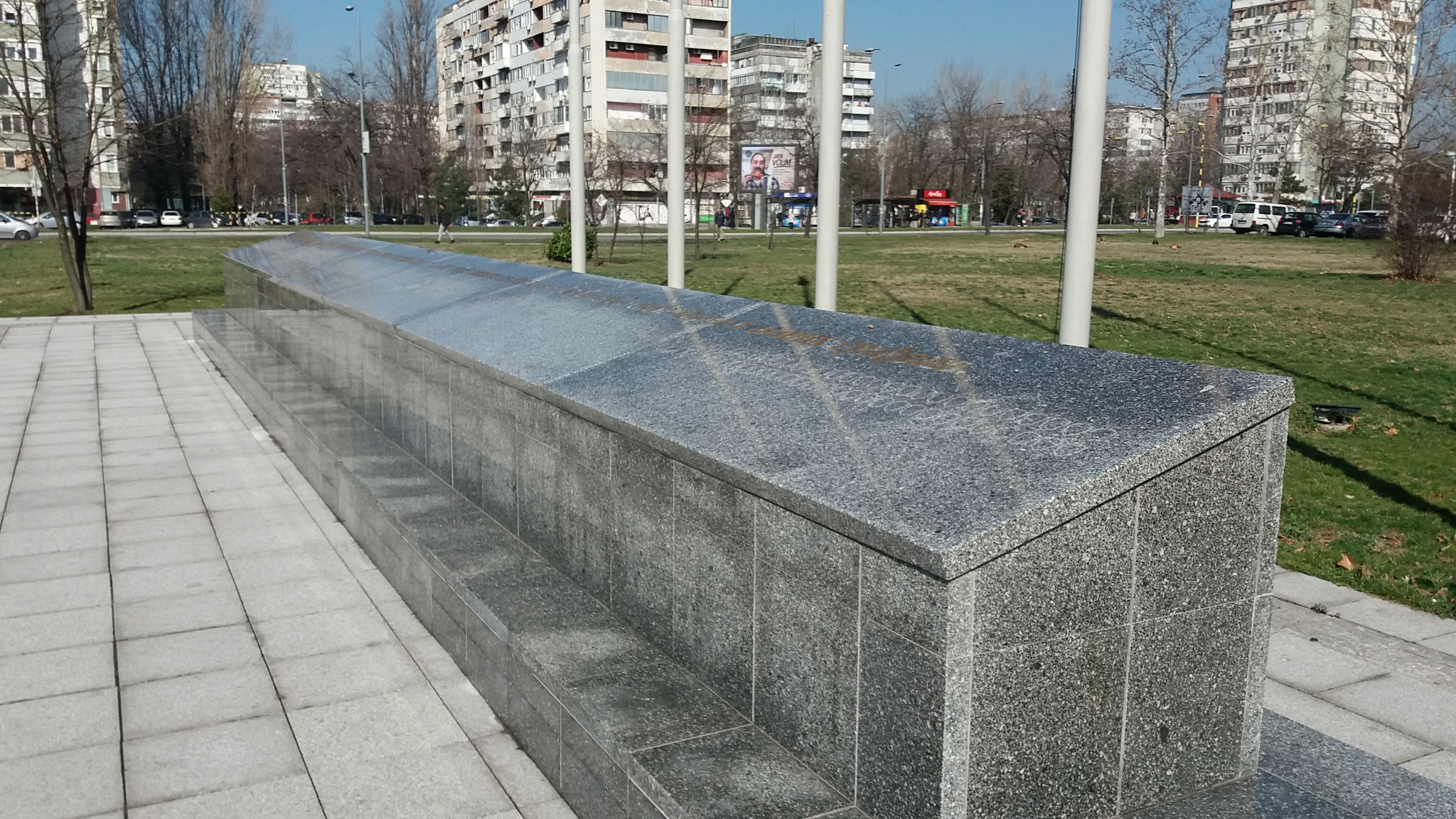 Monument to Heroes Killed for Serbia in New Belgrade